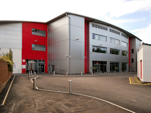 Fleetwood Town FC Stadium, near to Fleetwood, Lancashire, Great Britain.